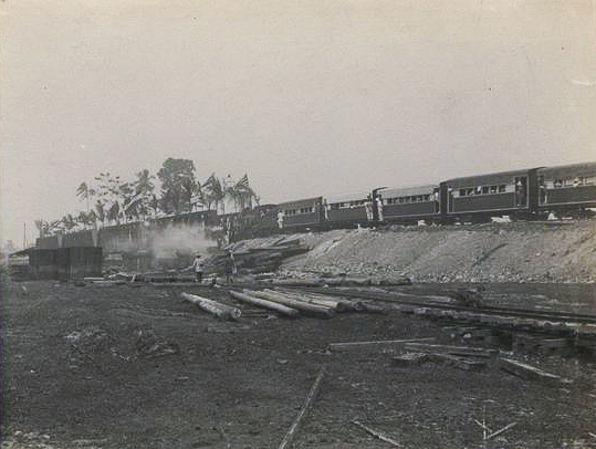 Description: First train to cross new bridge at Papar. Location: Papar, Borneo Date: 09 April 1915 Our Catalogue Reference: Part of CO 1069/527. This image is part of the Colonial Office photographic collection held at The National Archives. Feel free to share it within the spirit of the Commons. Please use the comments section below the pictures to share any information you have about the people, places or events shown. We have attempted to provide place information for the images automatically but our software may not have found the correct location. For high quality reproductions of any item from our collection please contact our image library